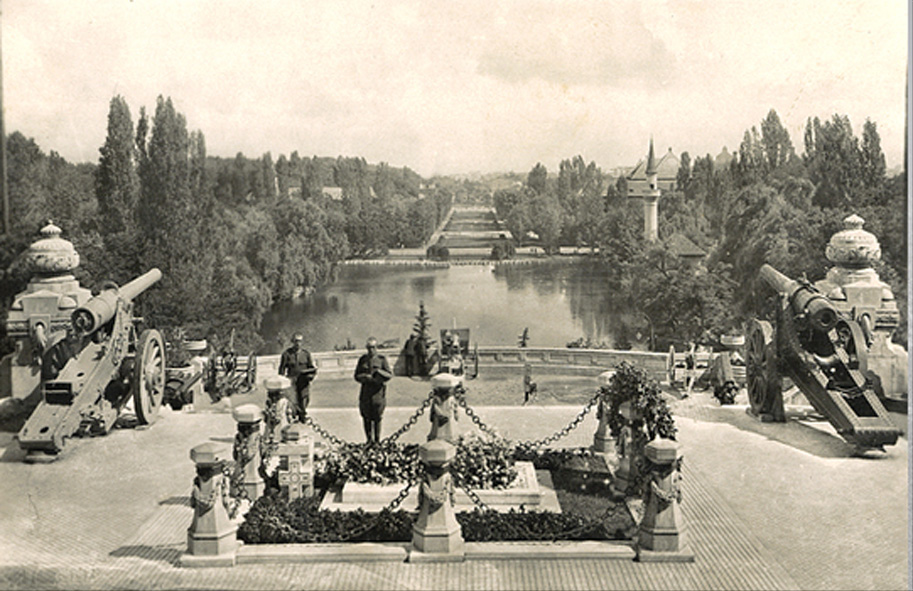 Parcul Carol, Bucureşti, Monumentul Soldatului Necunoscut